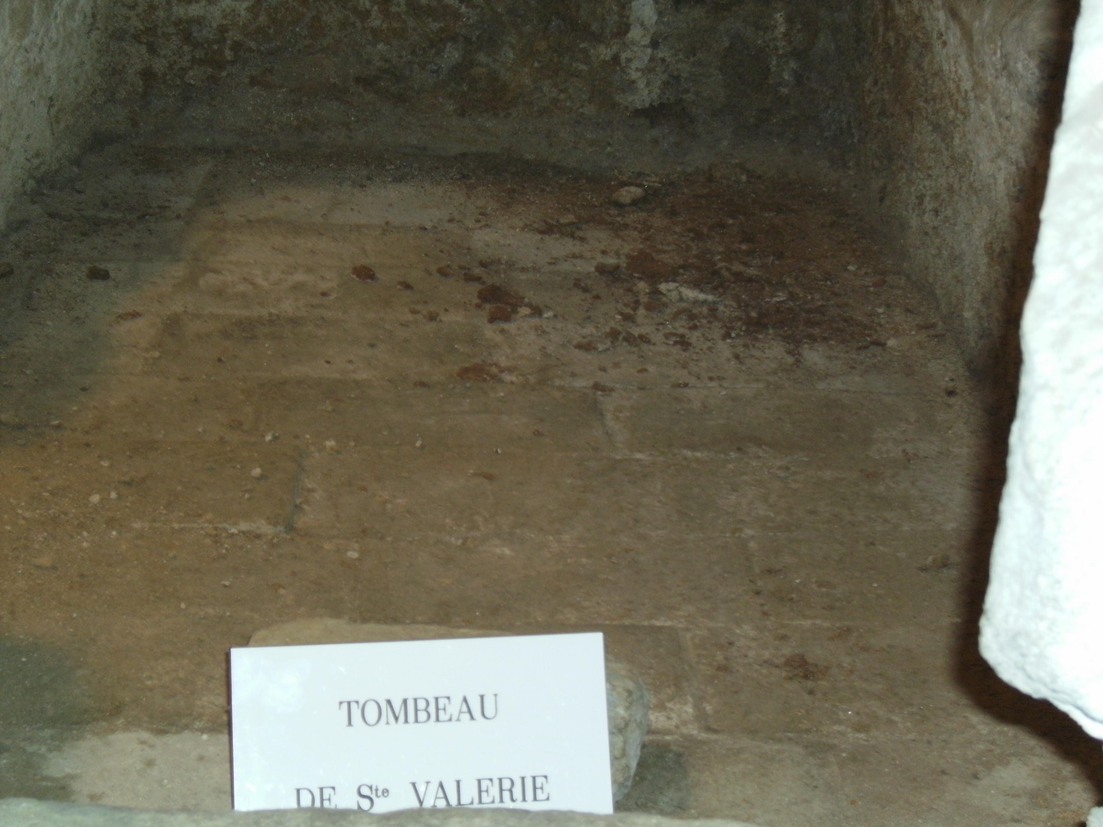 Tomb of St Valerie, Limoges, France